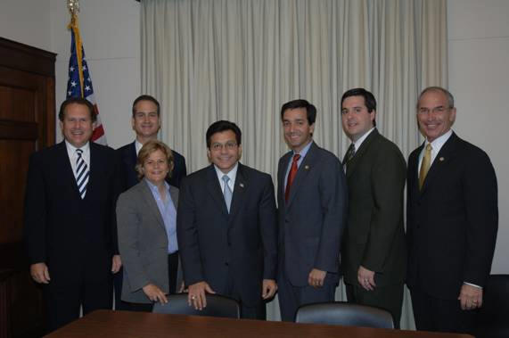 Congressional Hispanic Conference members met with Attorney General Al Gonzales (Pictured from left to right: Rep. Lincoln Diaz-Balart (Fla.), Rep. Mario Diaz-Balart (Fla.), Rep. Ileana Ros-Lehtinen (Fla.), Attorney General Alberto Gonzales, Resident Commissioner Luis Fortuño (P.R.), Rep. Devin Nunes (Calif.), and Rep. Bob Beauprez (Colo.)) (July 2005)